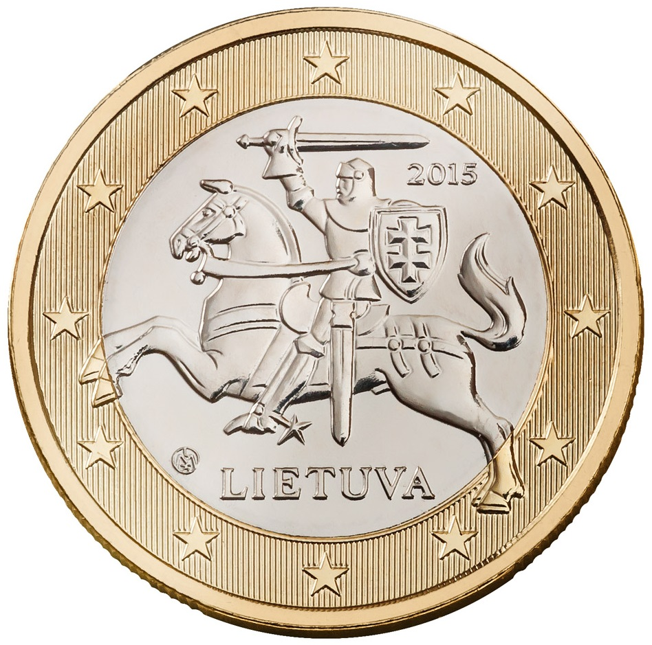 1 Euro Lithuania 2015